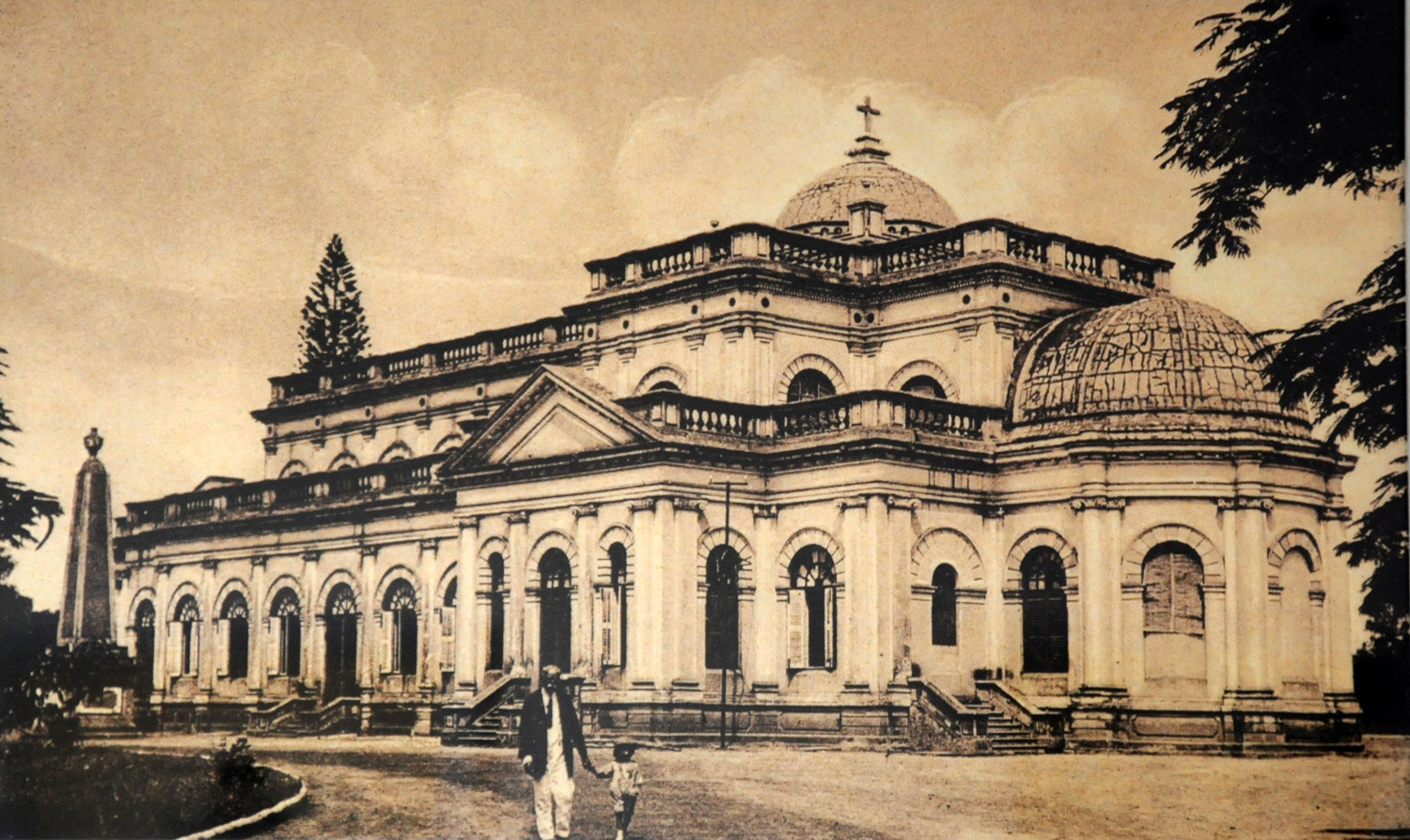 St. Marks Cathedral, Bangalore. (Old Postcard Re-print), India Post (2014)